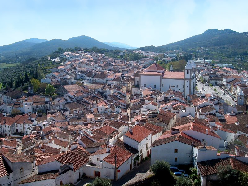 This file was uploaded for Wiki Loves Monuments in Portugal with the unique identifier 71609.